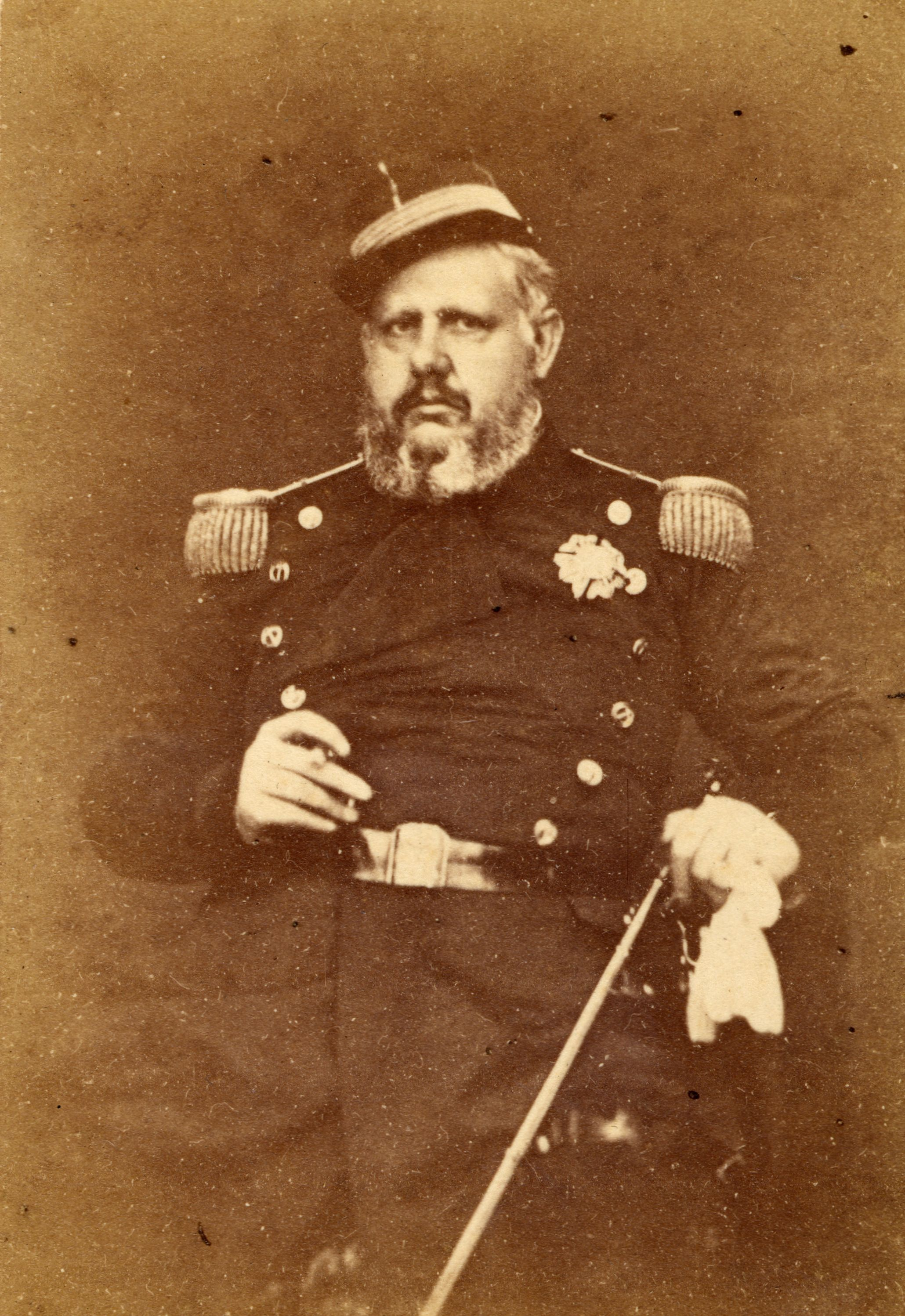 Ferdinand II, King of the Two Sicilies. Photograph